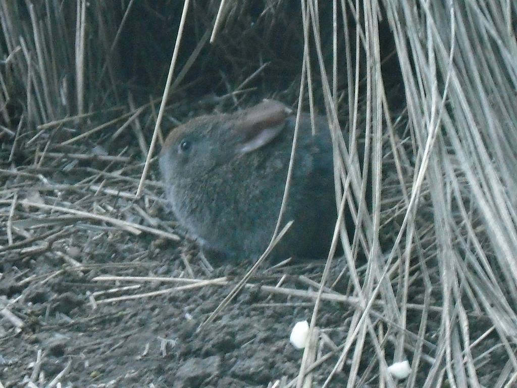 Romerolagus diazi in Chapultepec zoo, México city